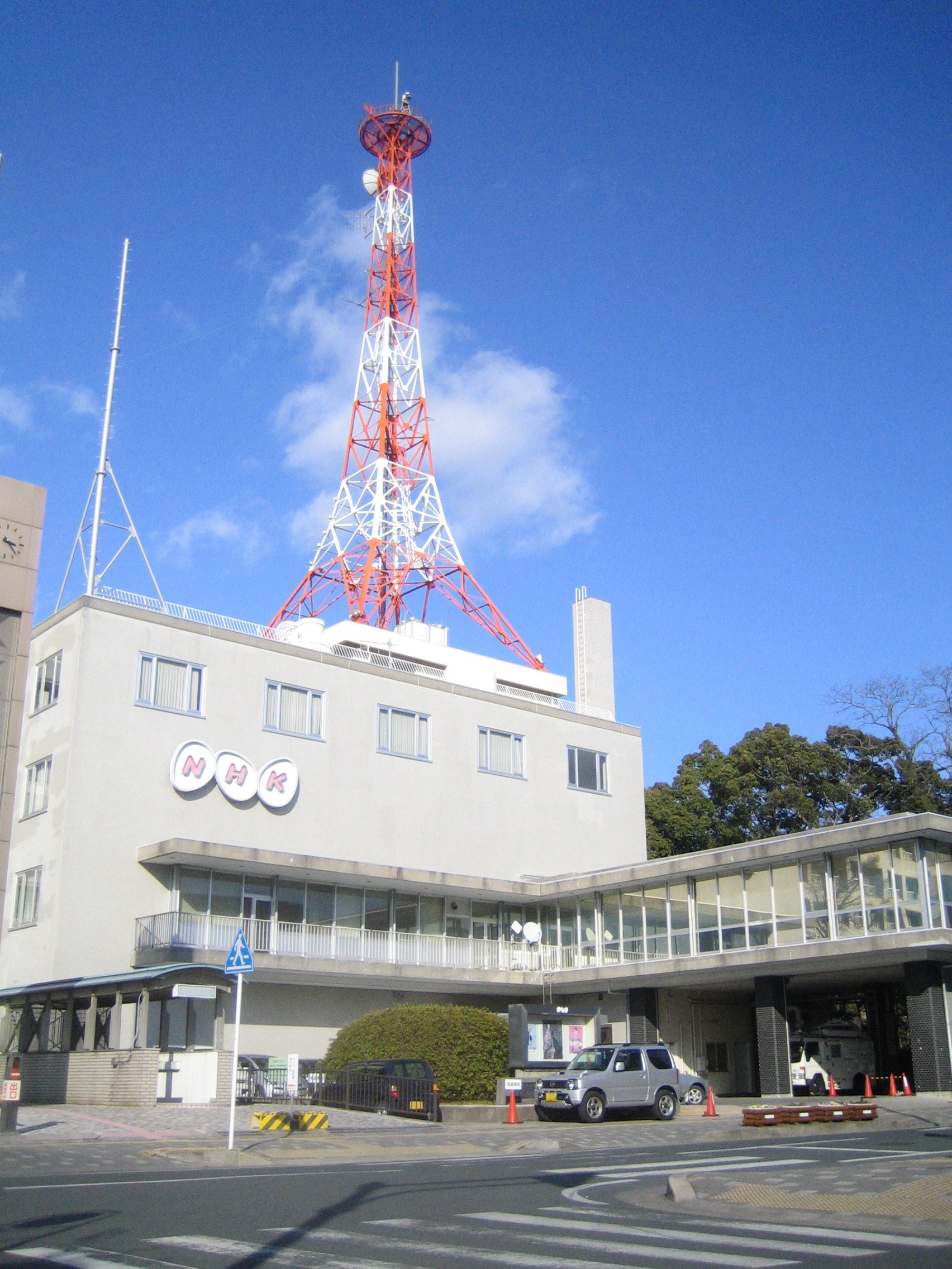 NHK Toyohashi Branch Office (NHK豊橋支局), located at Imabashicho, Toyohashi, Aichi, Japan